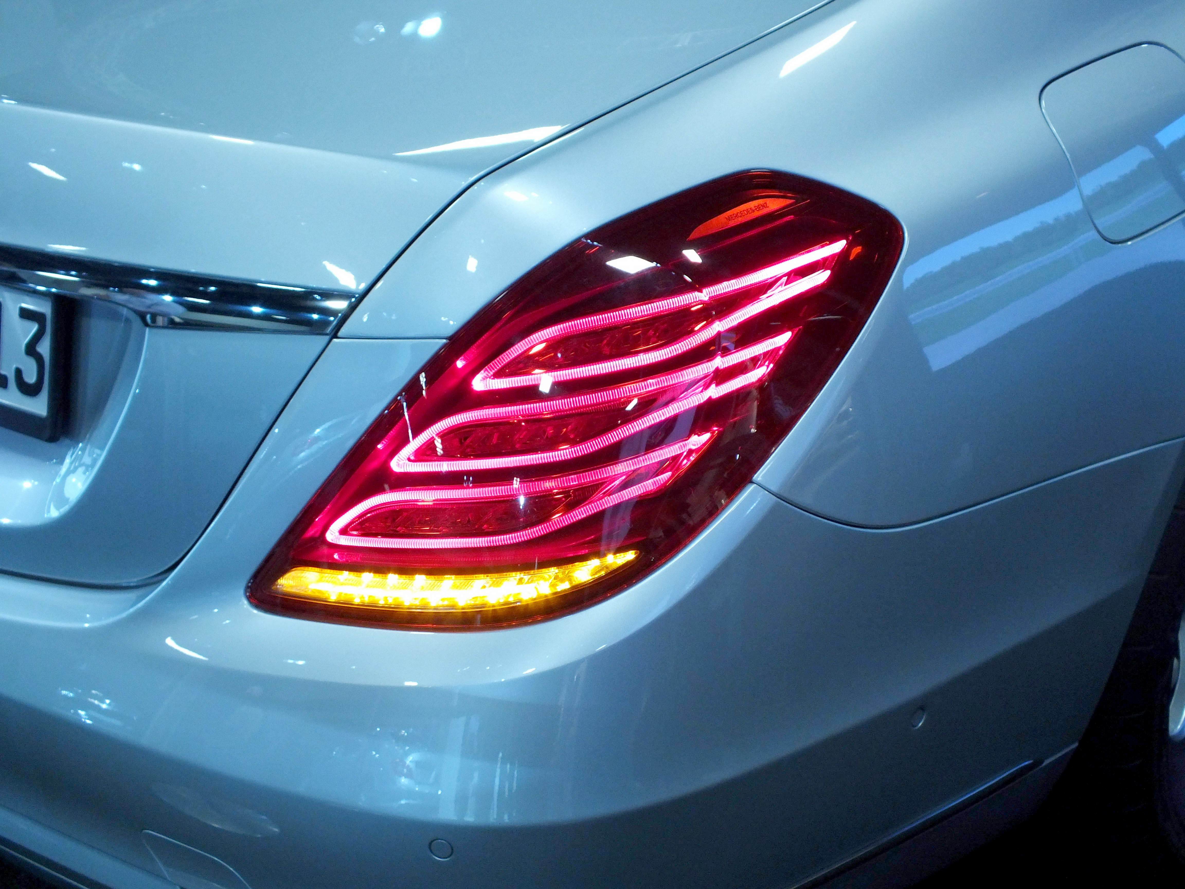 The all-LED tail light assembly of the Mercedes-Benz S-Class (W222).